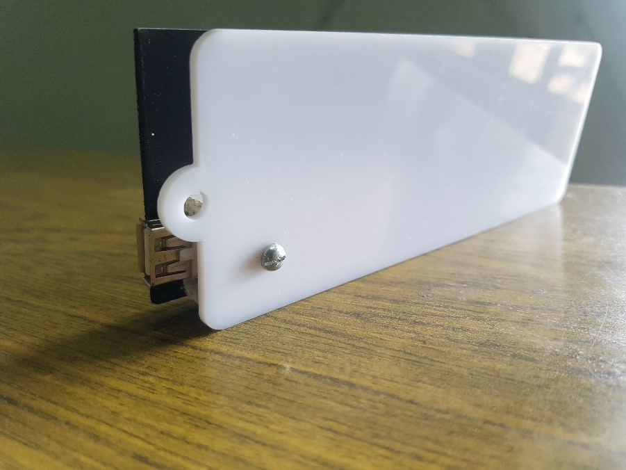 solar mobile charger